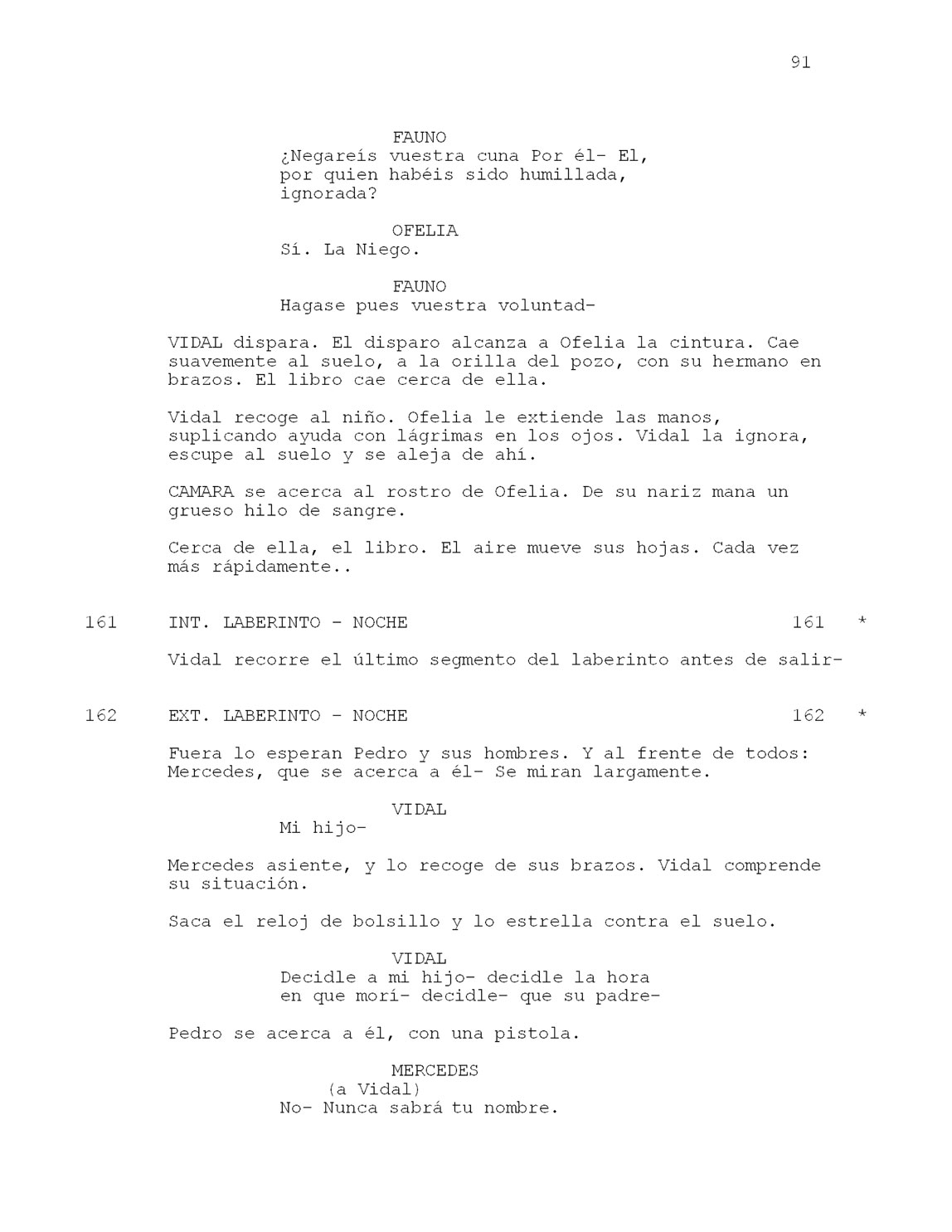 Sample from a screenplay in spanish, showing dialogue and action descriptions.